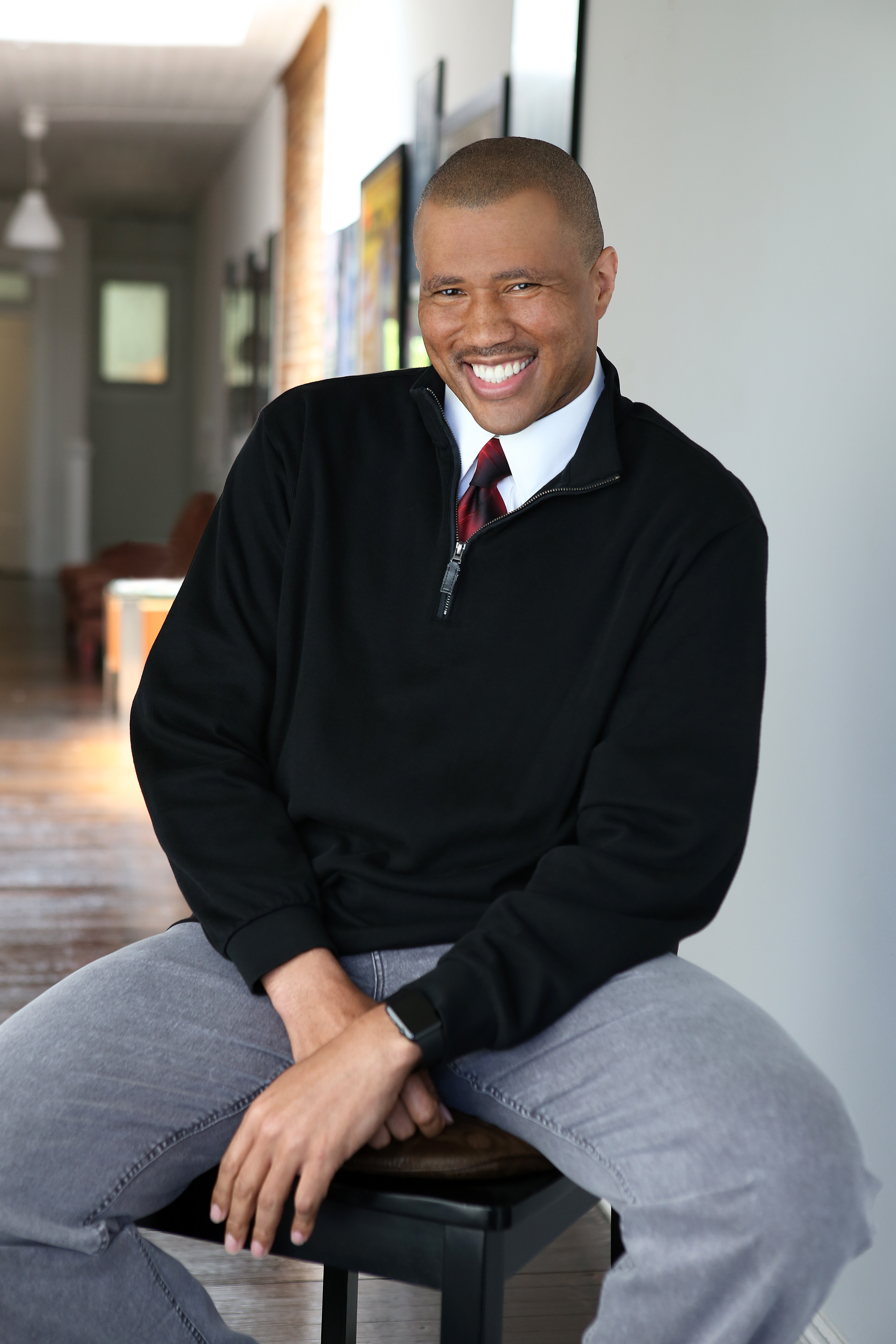 Walter Latham at the home offices of Walter Latham Entertainment, Inc.